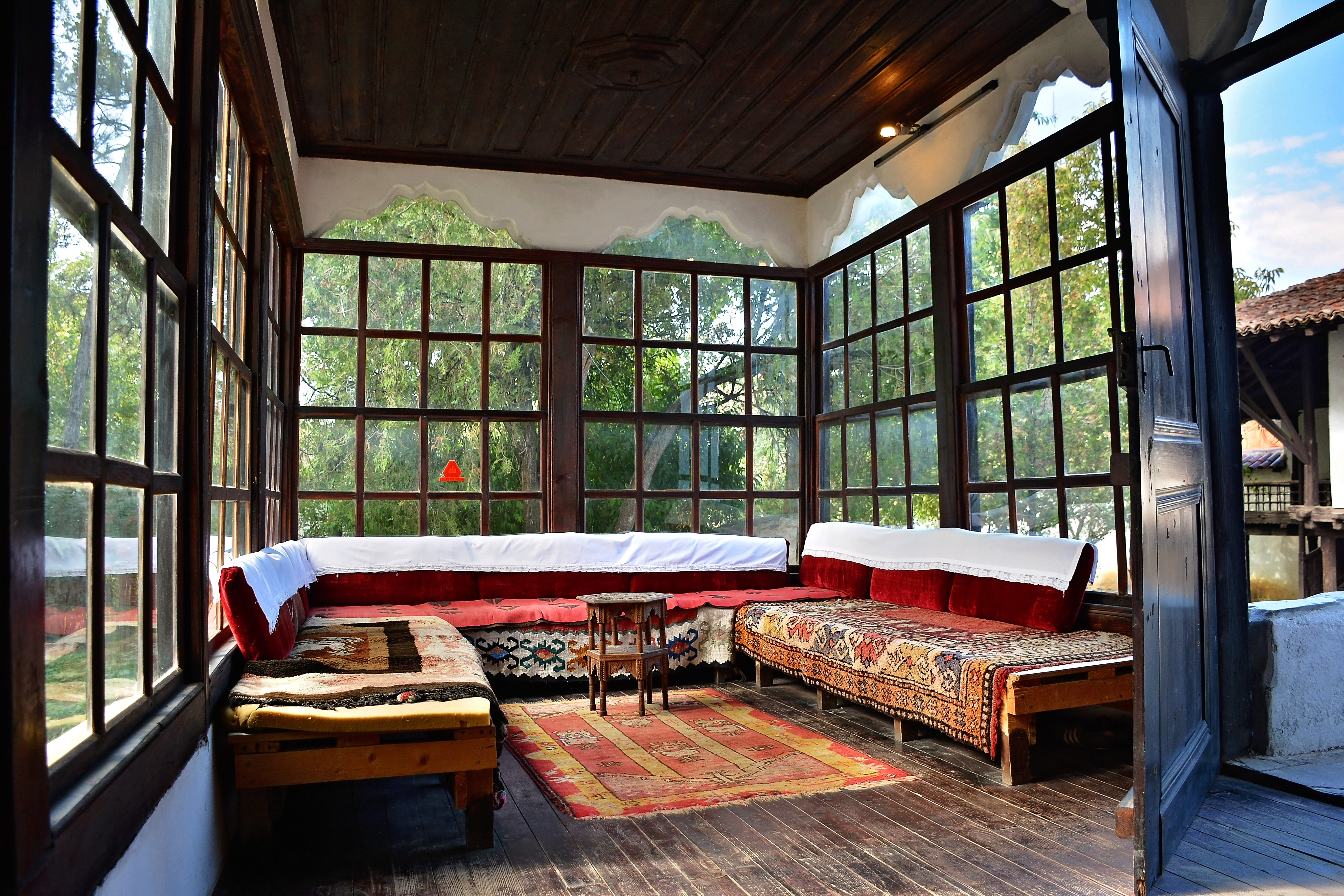 Housing complex of Emin Gjiku - Ethnological MuseumShqip: Kompleks banimi (Emin Gjiku) Muzeu Etnologjik